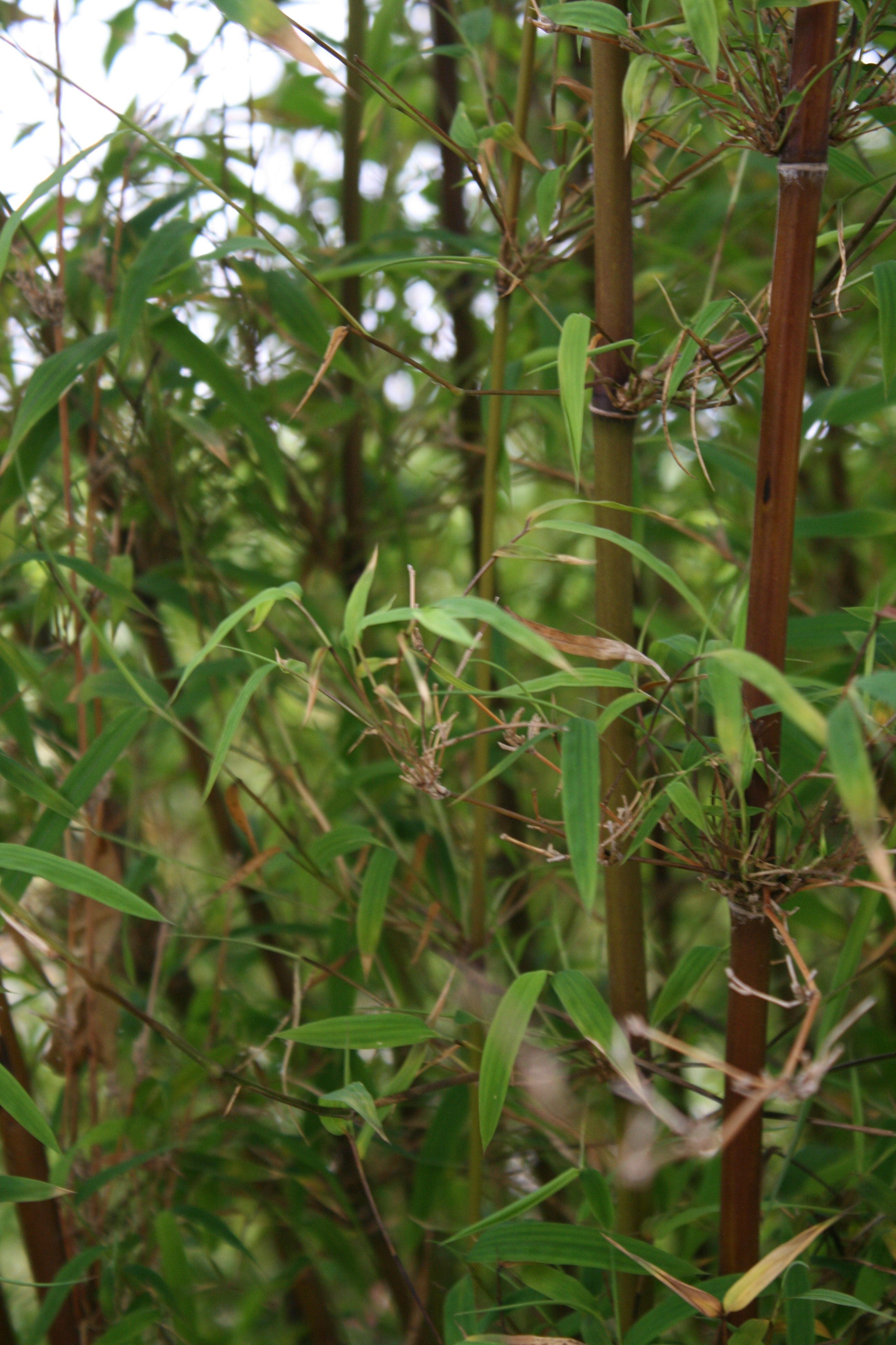 Himalayacalamus asper This bamboo grows 25 feet tall and has attractive purple canes or culms